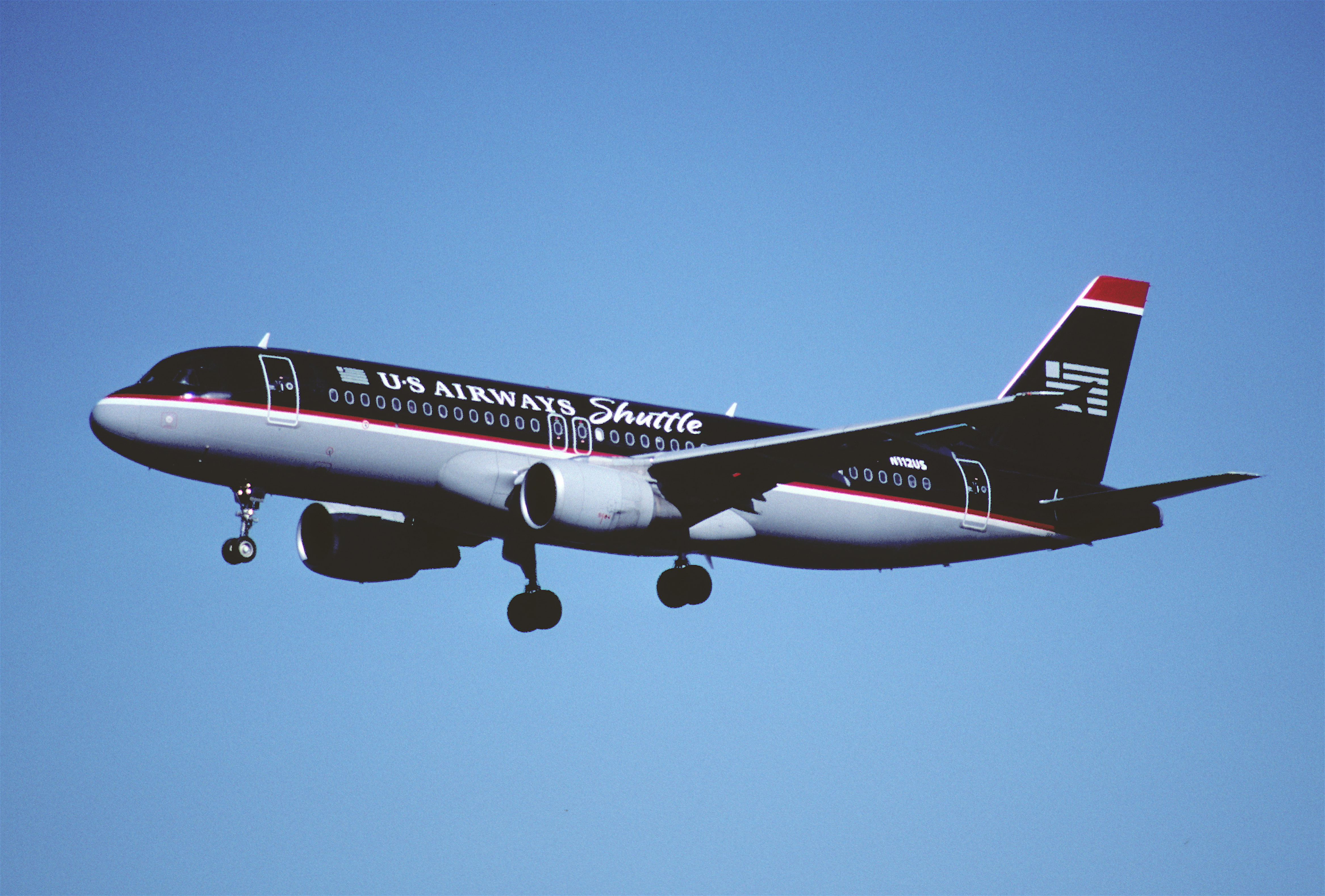 125bh - US Airways Shuttle Airbus A320-214; N112US@LGA;18.03.2001